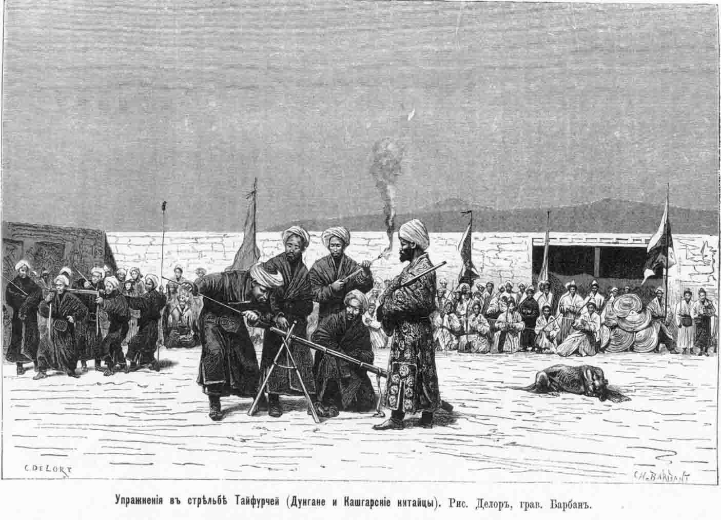 "Shooting exercises of the Taifurchis. Dungans and Kashgar Chinese", illustration from "Our Centrasl Asian Border. Kashgar. (Part 2 of 2), Niva magazine, 1879, No. 15, pp. 281-285.